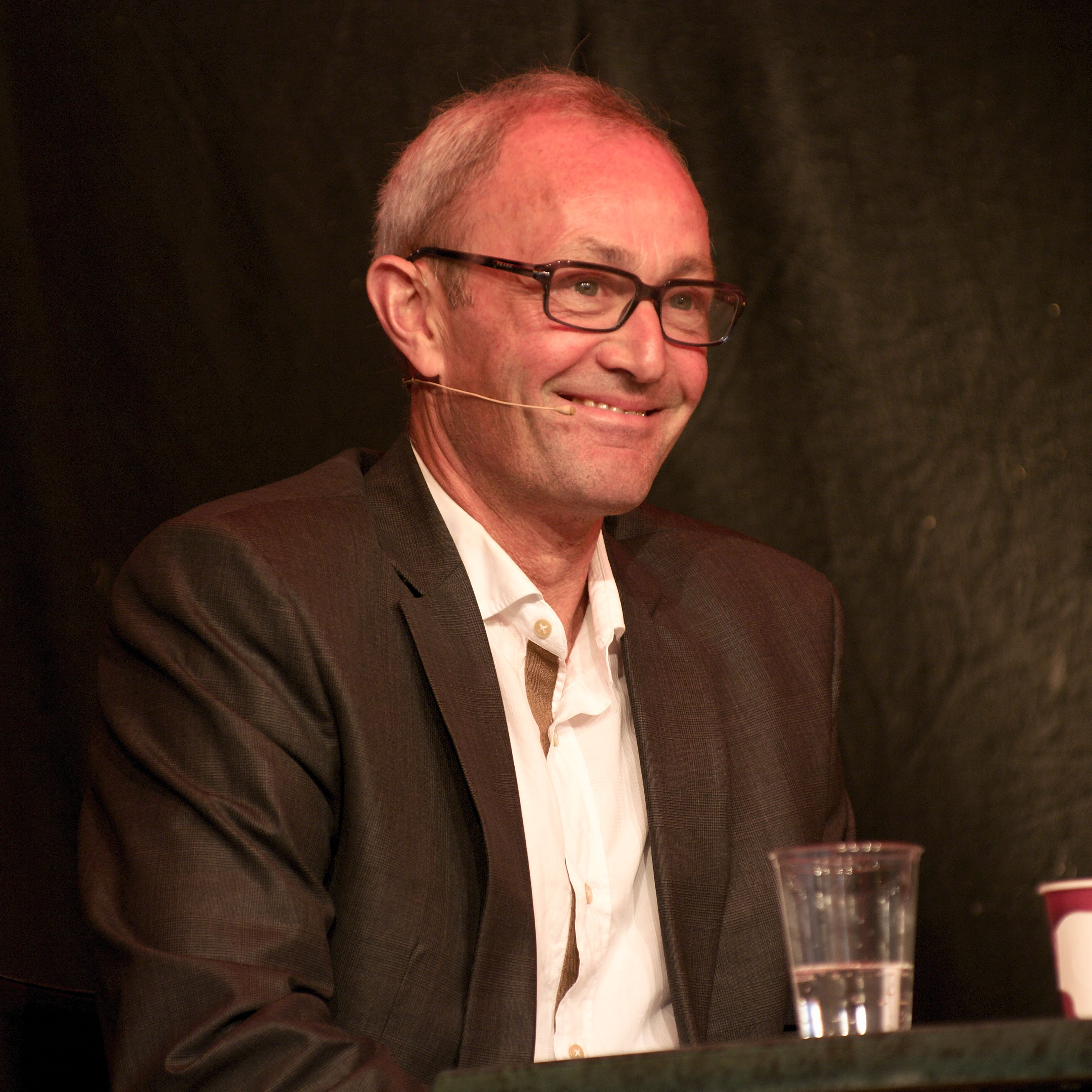 Thomas Spence at Oslo bokfestival.